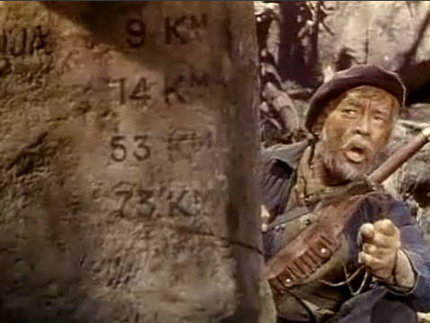 russian-born actor Vladimir Sokoloff - Screenshot from the For Whom the Bell Tolls - trailer